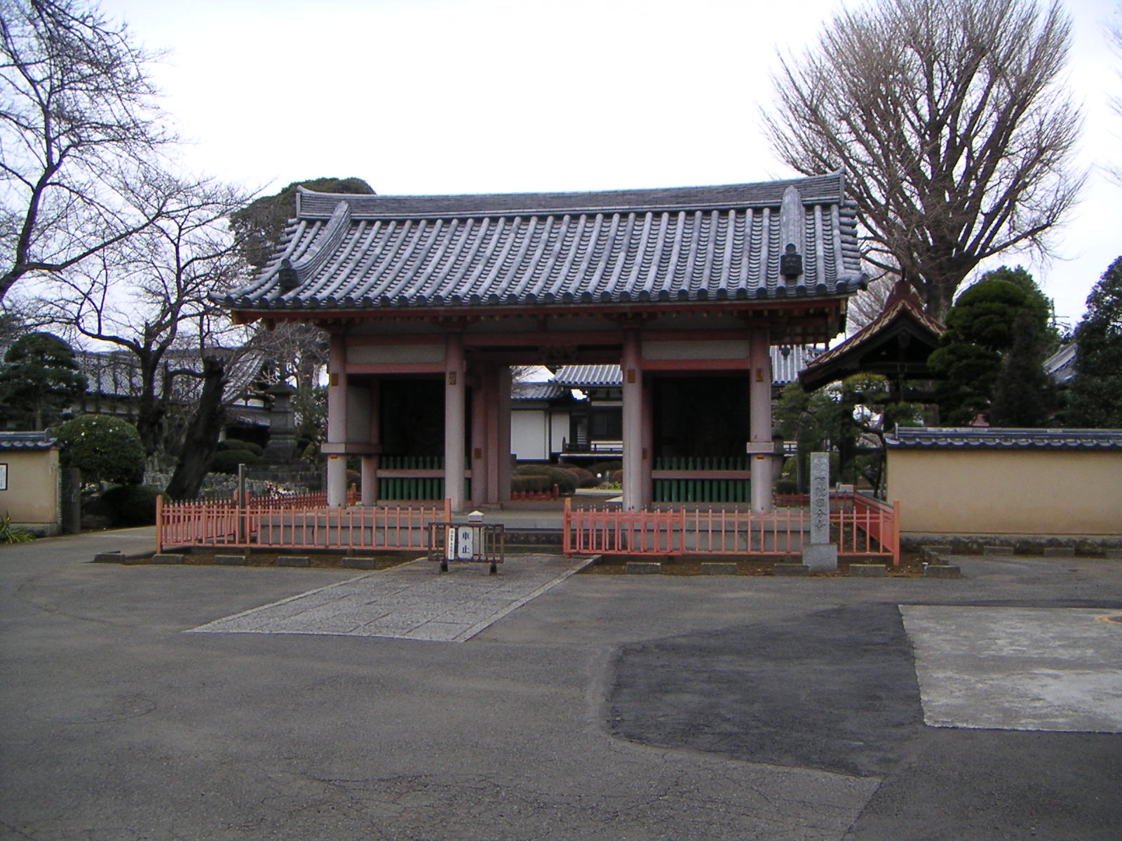 ShimosaKokubunji MinamiDaimon